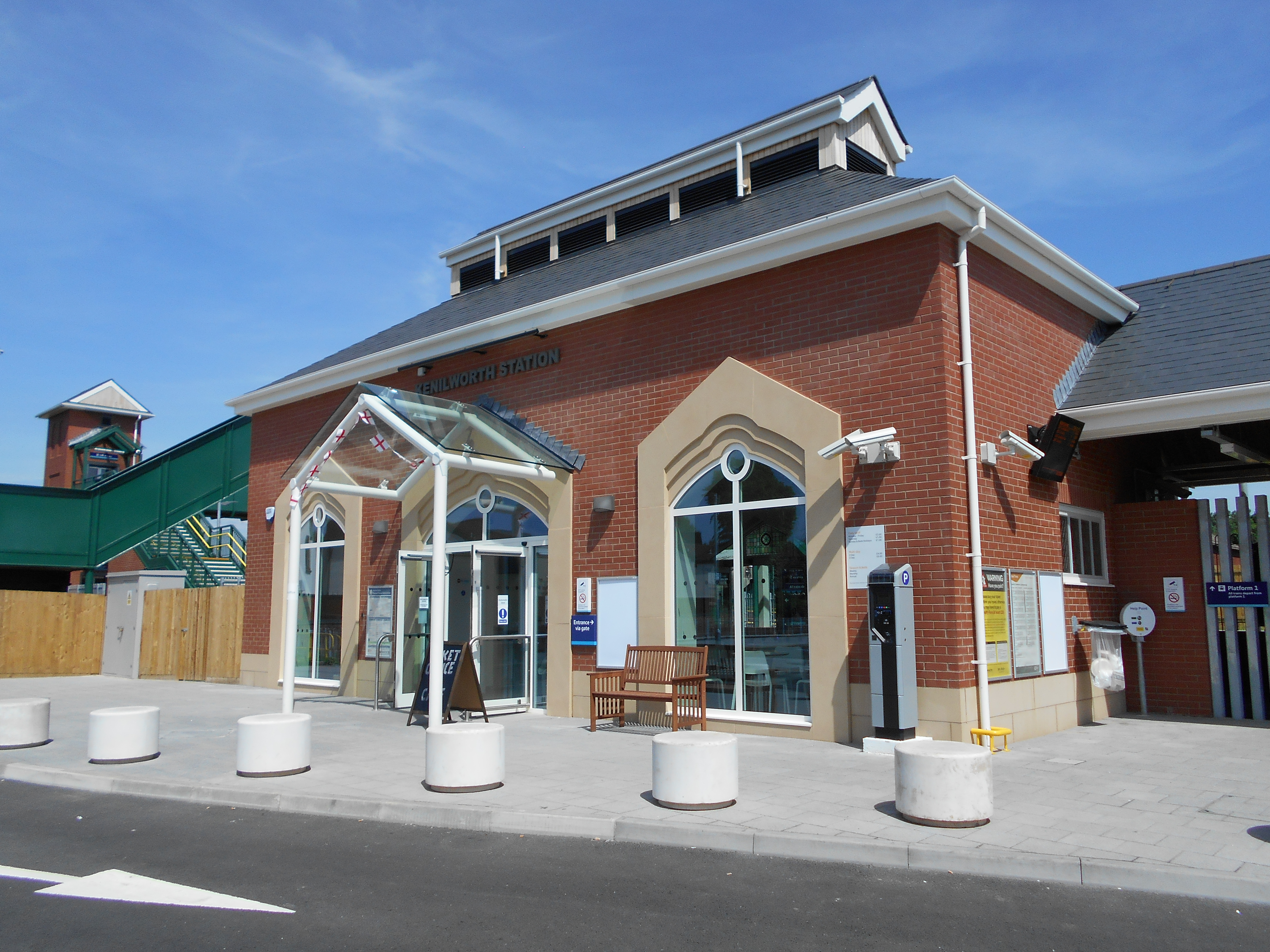 The exterior of Kenilworth station.